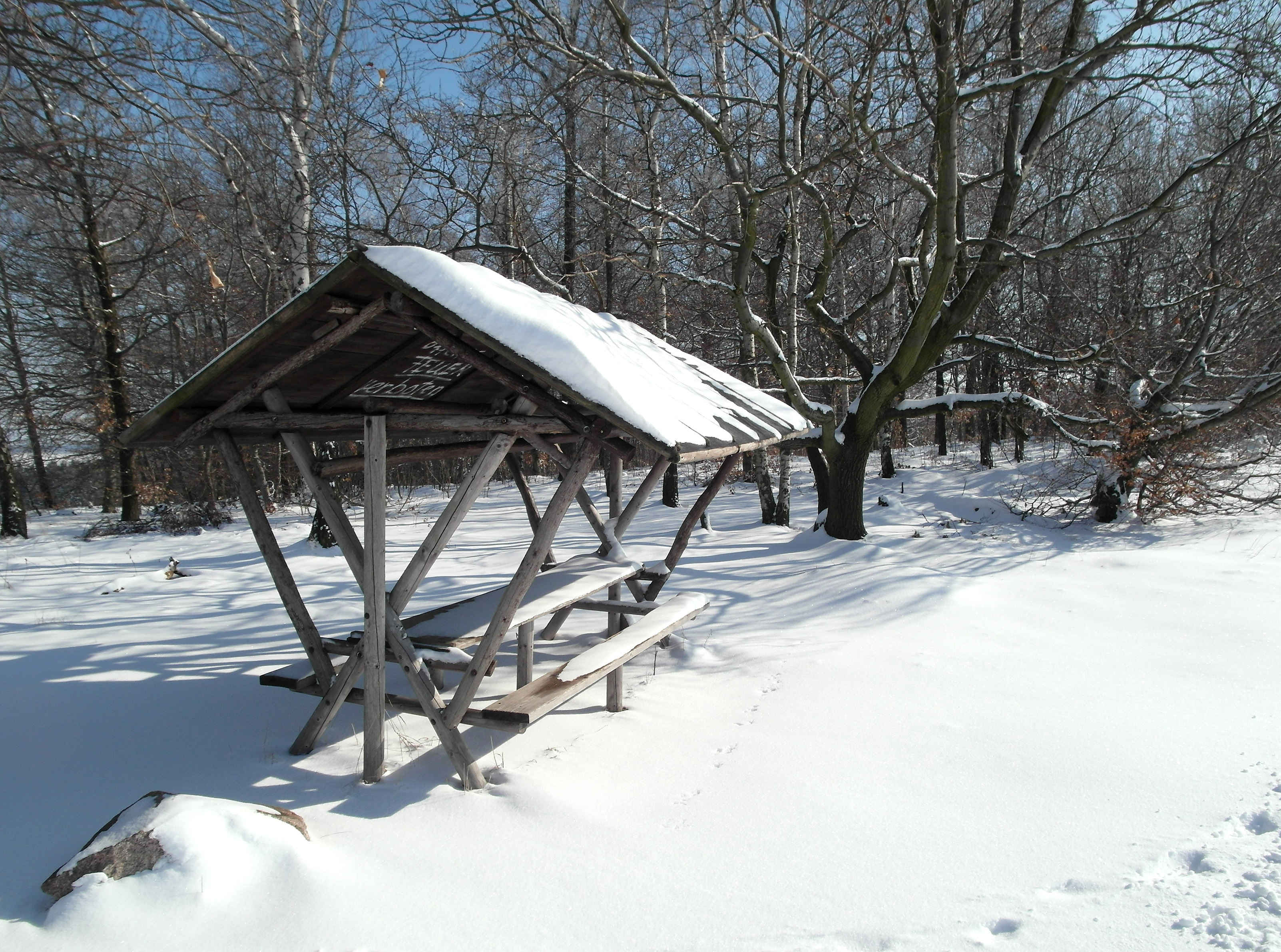 14.03.2013 01768 Hermsdorf am Wilisch (Glashütte): Wanderer-Rastplatz am Wilisch im Winter (GMP: 50.924144,13.744492). [SAM5478.JPG]20130314010DR.JPG(c)Blobelt